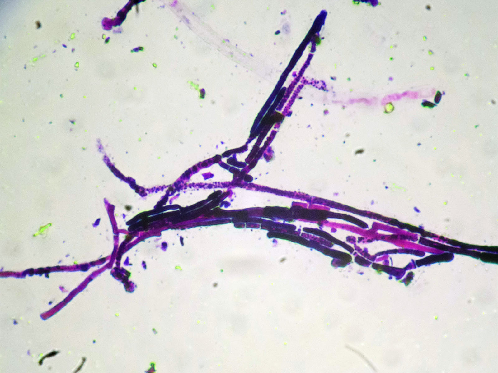 Gram stain of Geotrichum candidum cells (400-fold magnification).